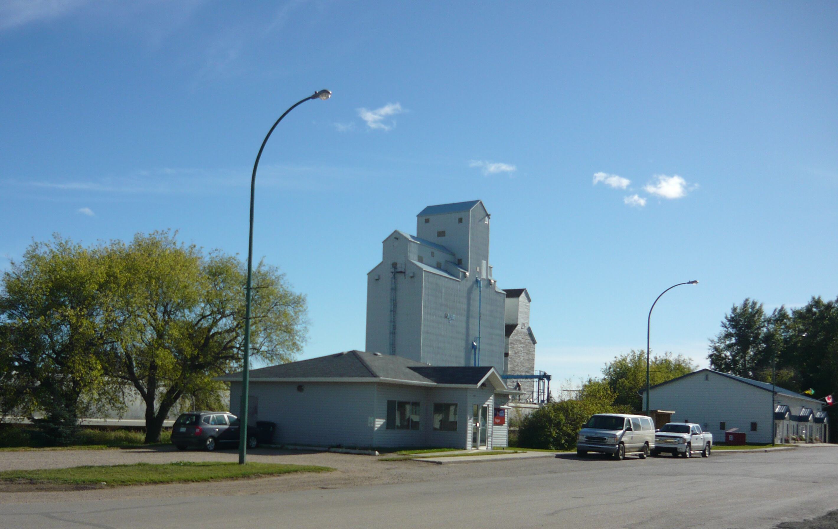 Post office at 108 Railway Street, Hague, Saskatchewan, Canada, with grain elevator in background.